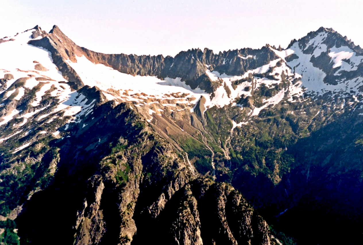 Ripsaw Ridge from Magic Mountain, also annotations for Sahale Peak, Boston Peak, Sahale Glacier, Davenport Glacier, Mount Buckner. North Cascades National Park